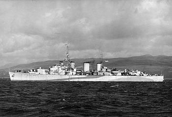 HMS ARIADNE at a buoy in the Clyde